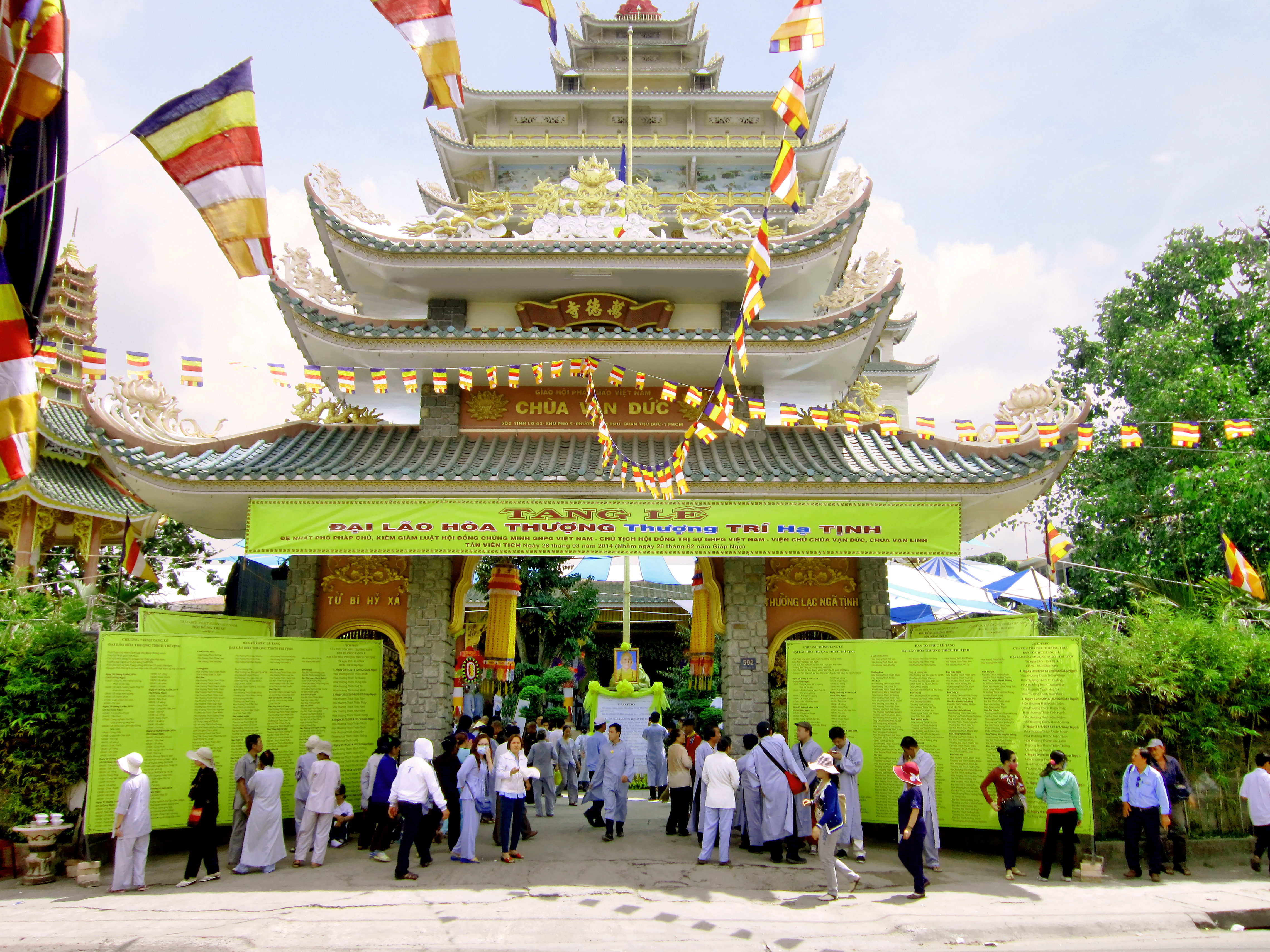 Chùa Vạn Đức ở quận Thủ Đức, TP. Hồ Chí Minh, Việt Nam; trong ngày lễ tang Đại lão Hòa thượng Thích Trí Tịnh.